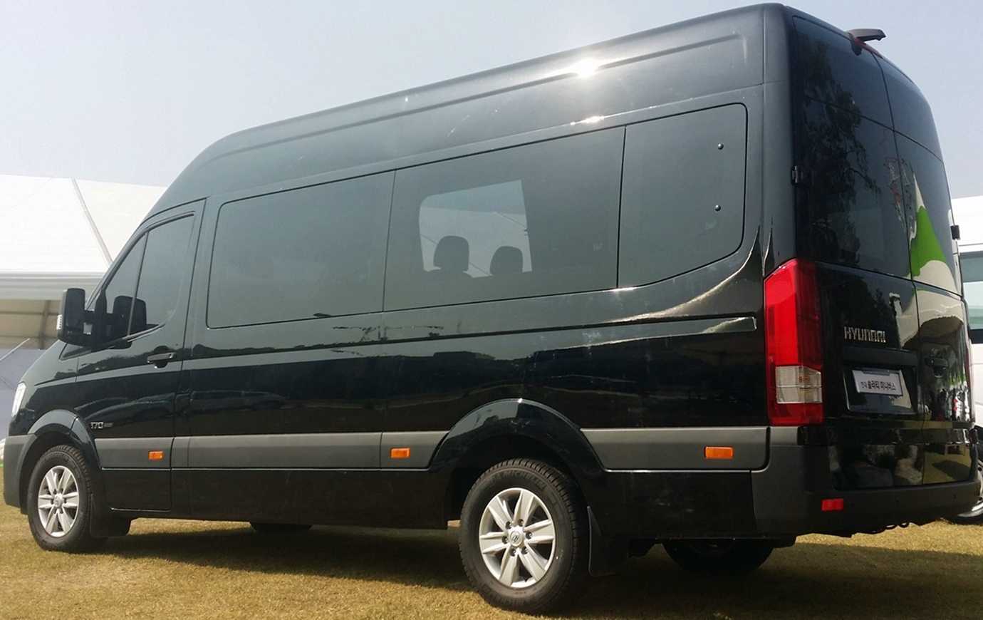 Hyundai Solati